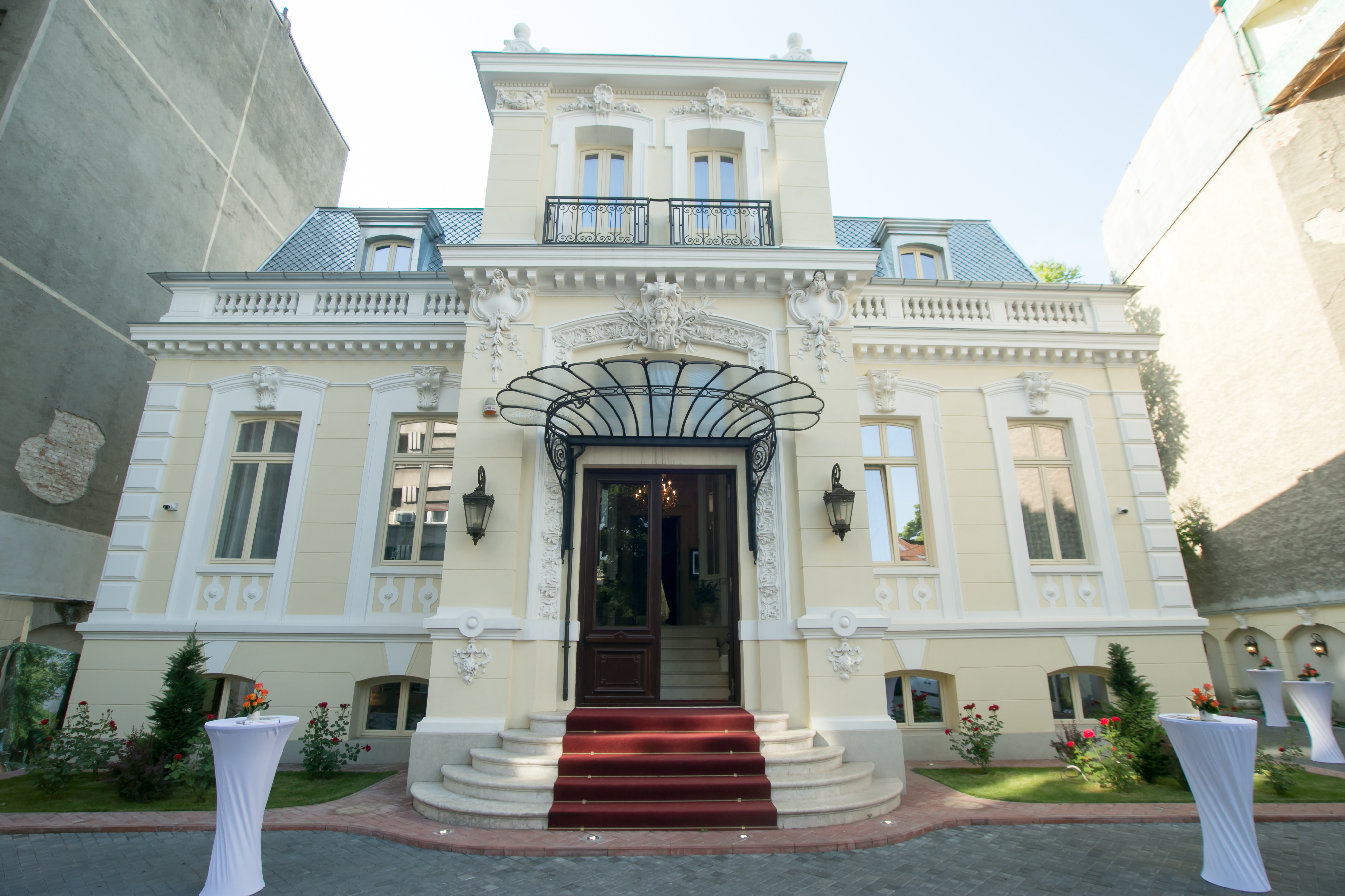 Picture with Noblesse Palace taken in Bucharest.